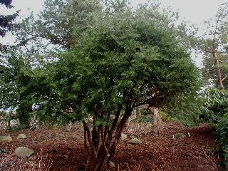 Cephalotaxus harringtonii